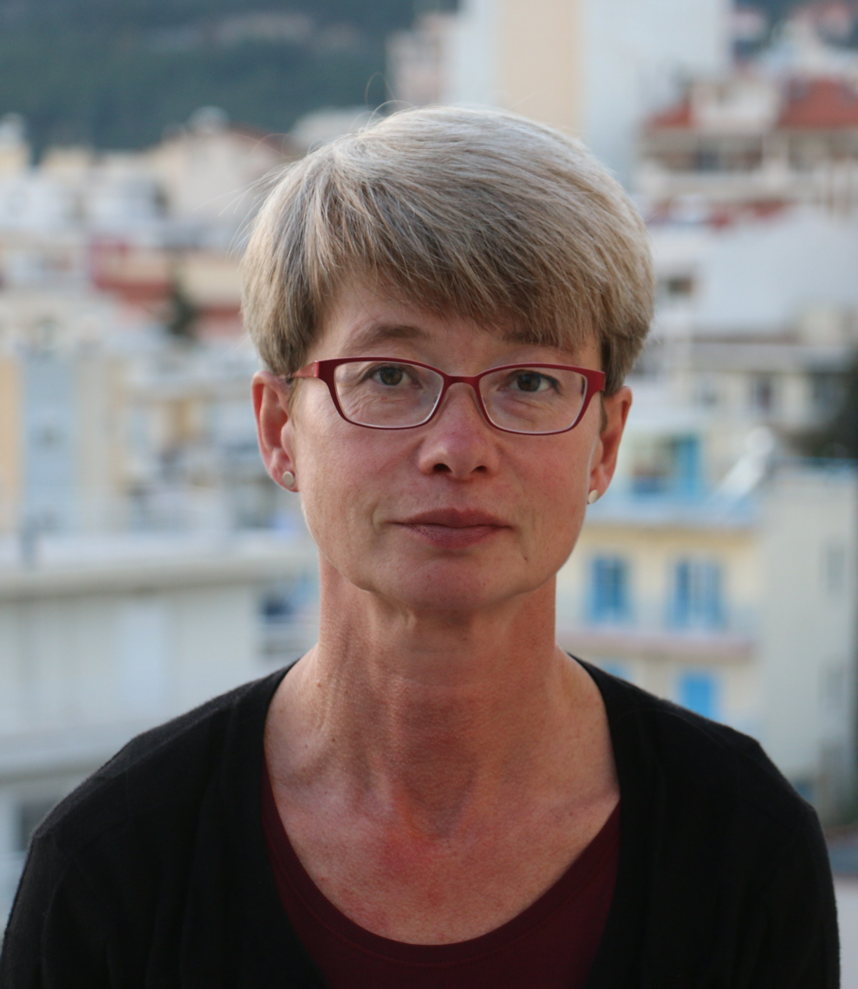 This photo is shot by Per Bäckström, and copyright to use it is granted by both Per Bäckström and Lena Liepe. This file is the offical photo of Lena Liepe, and can be downloaded for free use at Lena Liepe’s homepage at Linnaeus University, Sweden . It has been used in newspapers etc, but then with copyright Per Bäckström. Permission has been sent to Wikipermissions by e-mail by Per Bäckström today, 10 July 2019!